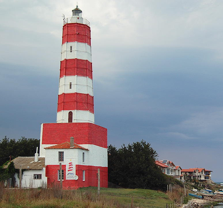 The Shabla lighthouse in Bulgaria.